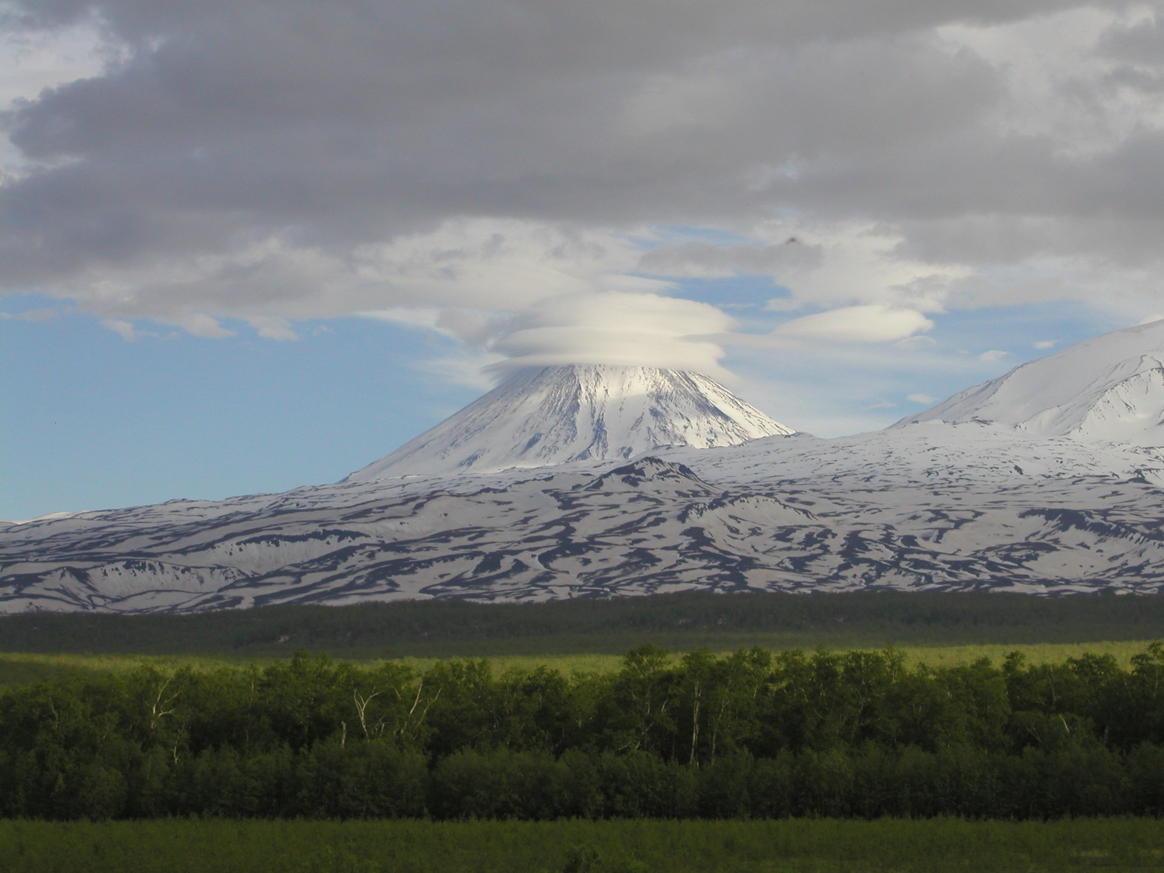 Kluchevskoy volcano This image is related to the protected area of Russia number 4110113